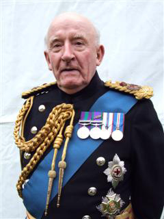 Sir Peter Inge KG, GCB. Photo taken in the Deans Park at York Minster, York, England, after a Parade by the Yorkshire Regiment.